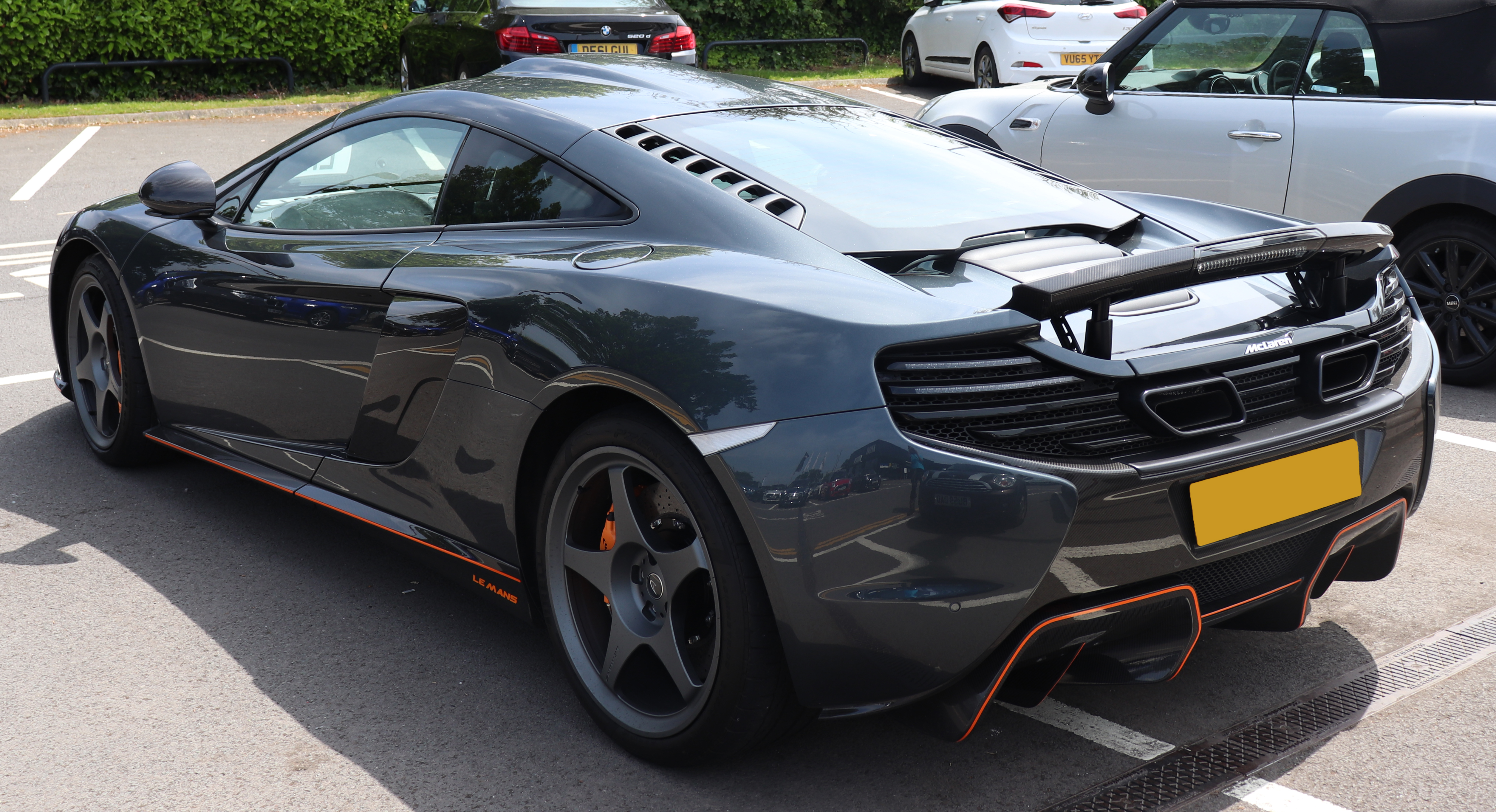 2015 McLaren 650S Coupe 3.8 Rear Taken in Solihull